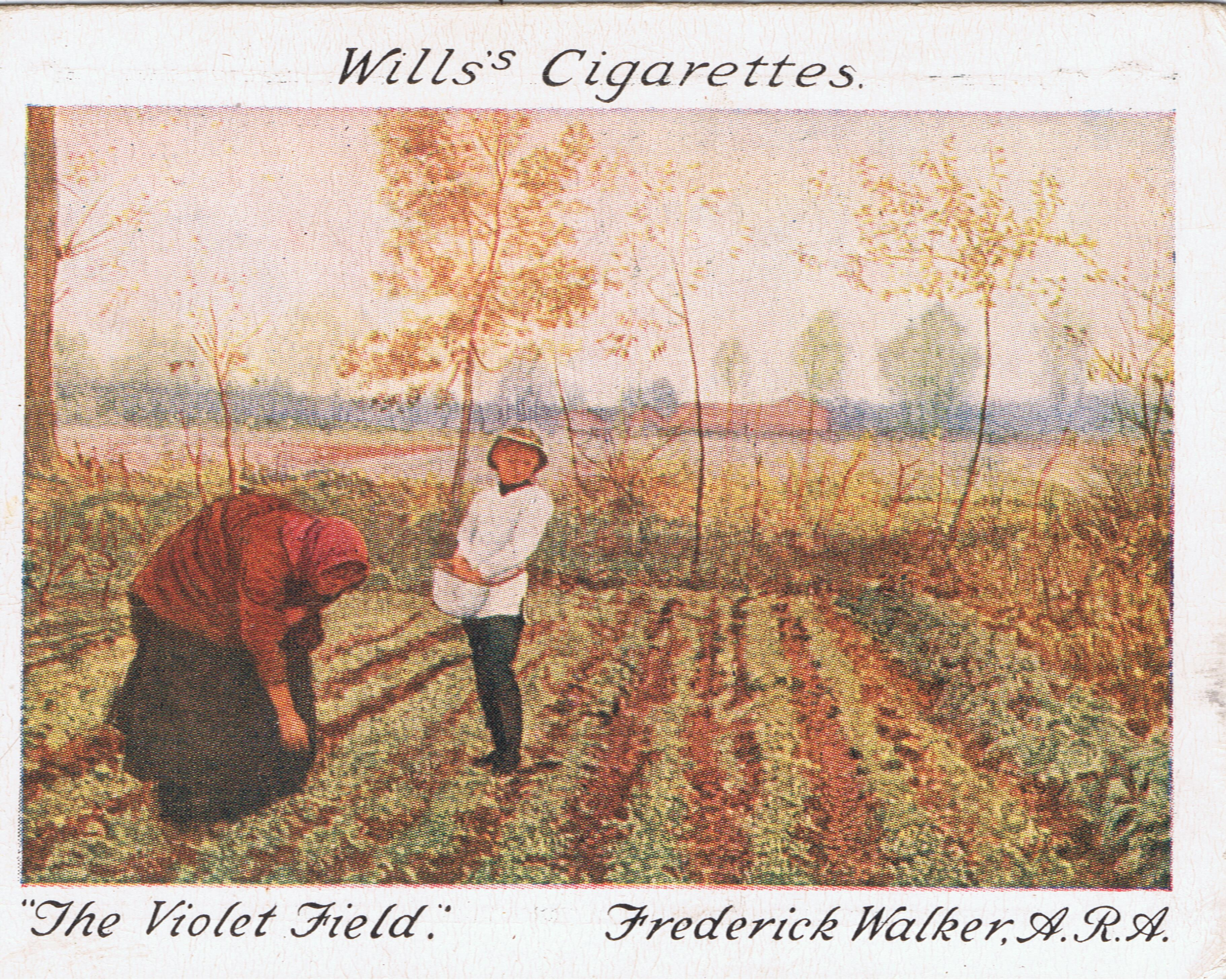 Scan (by me, R. de Salis, Rodolph (talk) 01:35, 6 December 2014 (UTC)) of The Violet Field by Fred Walker, ARA, as Wills's cigarette card, 1927. Other information Card was no.23 in the set of 25 W.D. & H.O. Wills entitled British School of Painting.